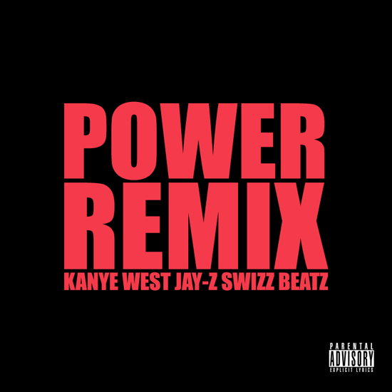 G.O.O.D. Fridays This is the album cover for the single "Power (Remix)" by the artist Kanye West.